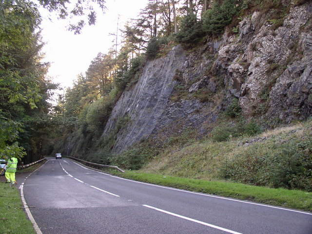 A77 Glenapp Looking south down the glen from entrance to Carlock house, notice the reinforced wire holding the loose rocks back.